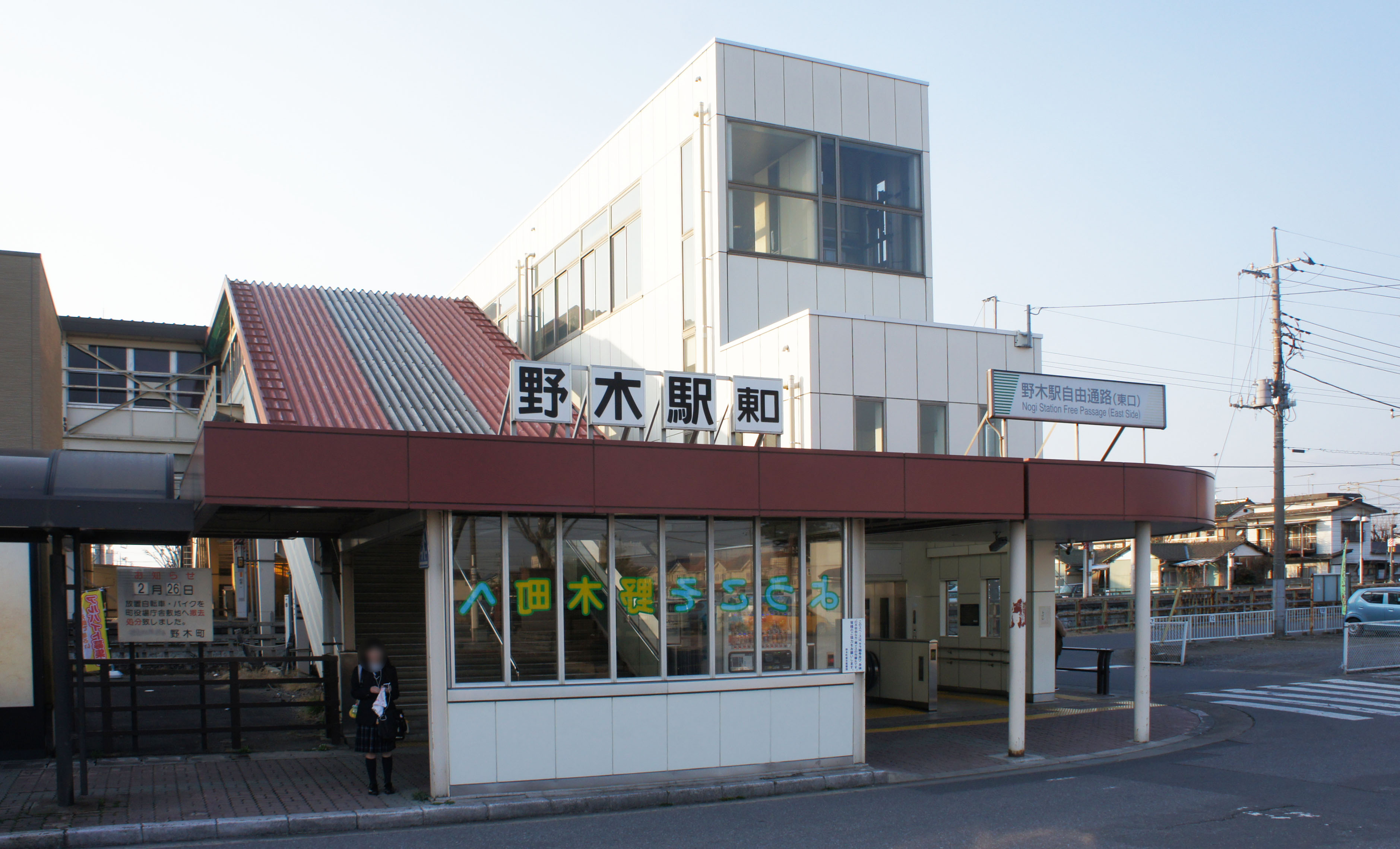 East Exit of JR Tohoku-Main-Line (Utsunomiya-Line) Nogi Station Sony NEX-3